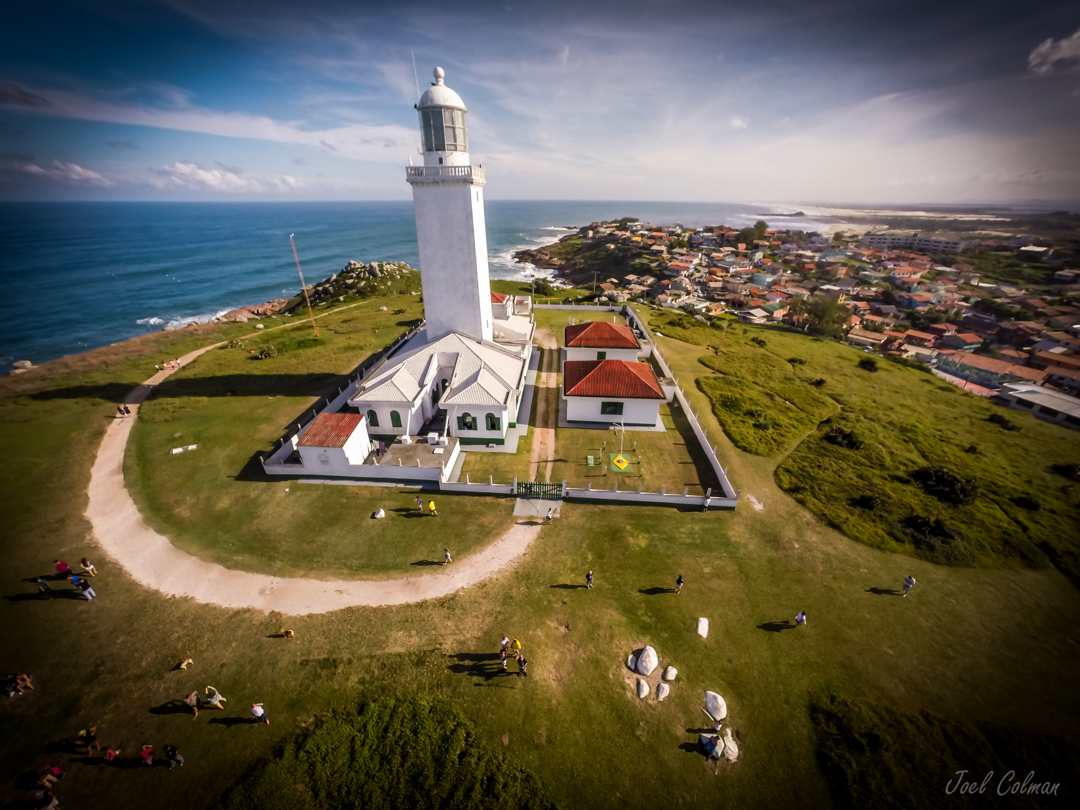 Photo taken through drone in Laguna - Santa Catarina - Brazil